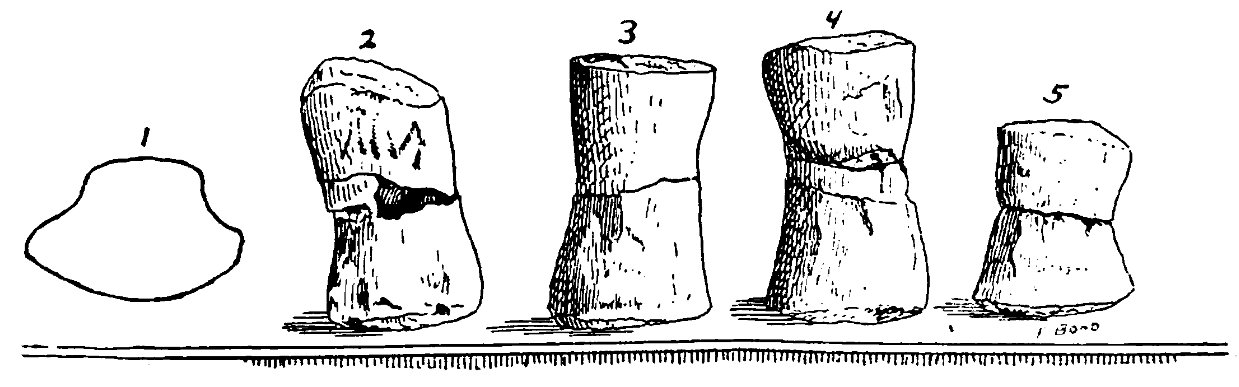 Illustration of the proximal phalanges of the plesiosaur Tatenectes (="Cimoliosaurus") laramiensis from Knight (1900). The leftmost illustration shows a cross section.